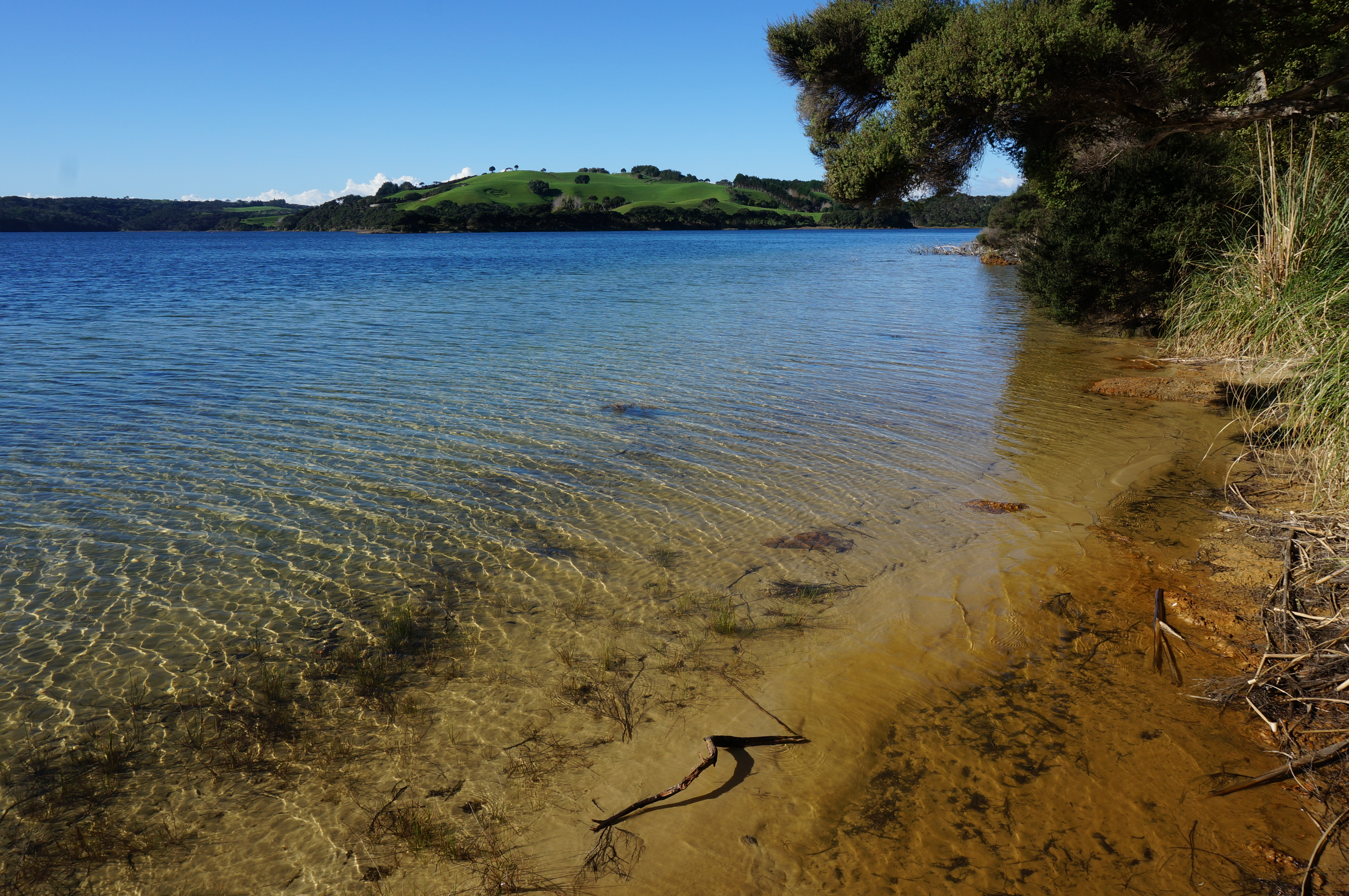 View from southern end of Lake Rototoa, formerly known as Lake Ototoa, New Zealand.